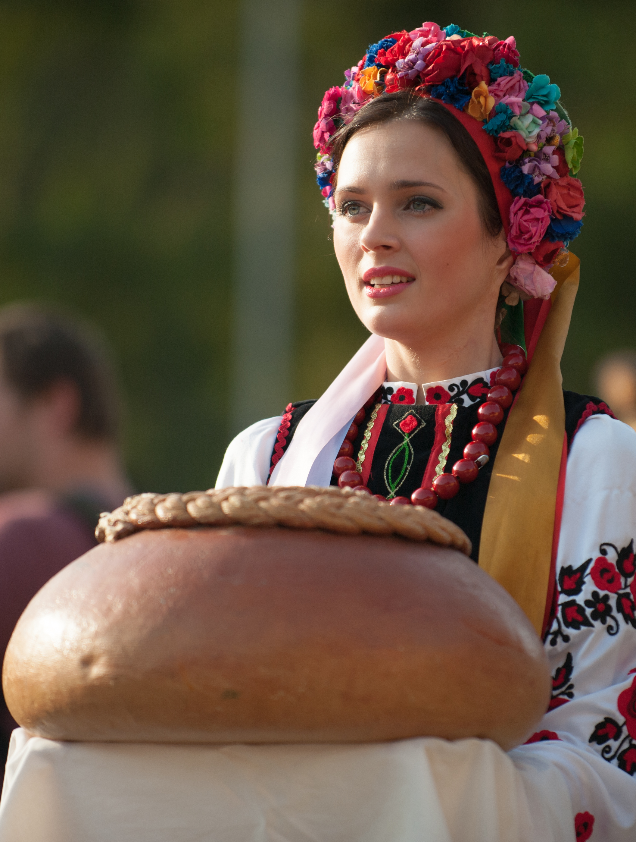 YAVORIV, Ukraine -- A Ukrainian woman participates in the opening ceremony of Rapid Trident 2014 here Sept. 15. Rapid Trident is an annual U.S. Army Europe conducted, Ukrainian led multinational exercise designed to enhance interoperability with allied and partner nations while promoting regional stability and security. (U.S. Army photo by Spc. Joshua Leonard)